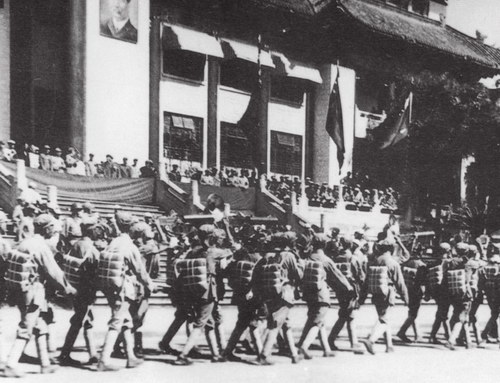 People's Liberation Army troops entered to Guangzhou on October 14, 1949. 中文（中国大陆）: 1949年10月14日，解放军进驻广州